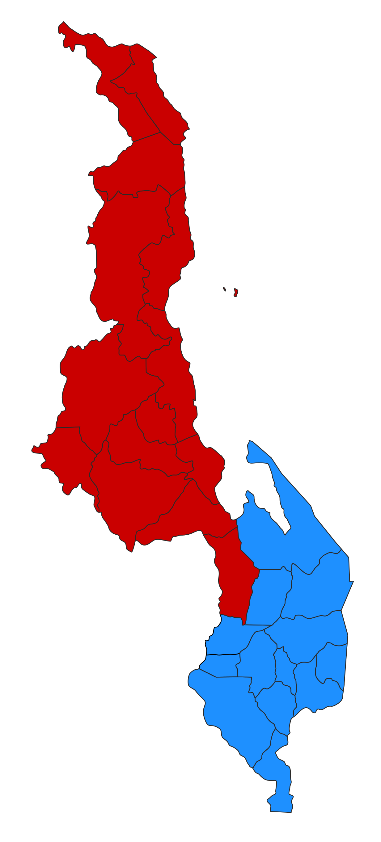 Districts won by Lazarus Chakwera (MCP)} Peter Mutharika (DPP)